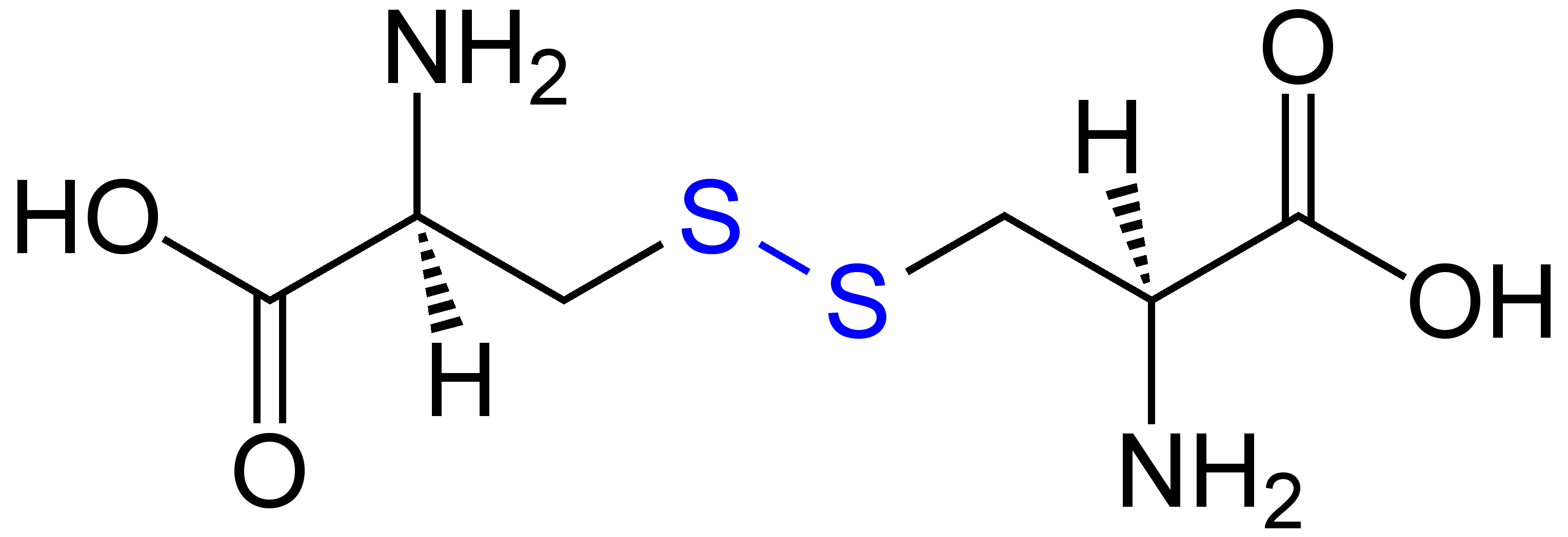 (R,R)-Cystine